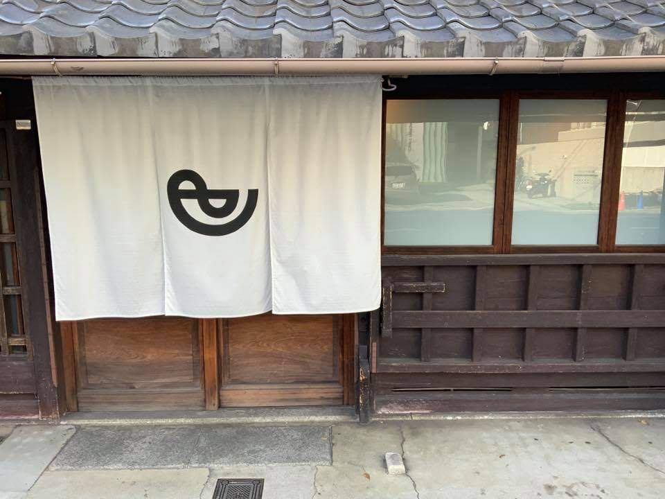 The design of the logo is Daijiro Ohara